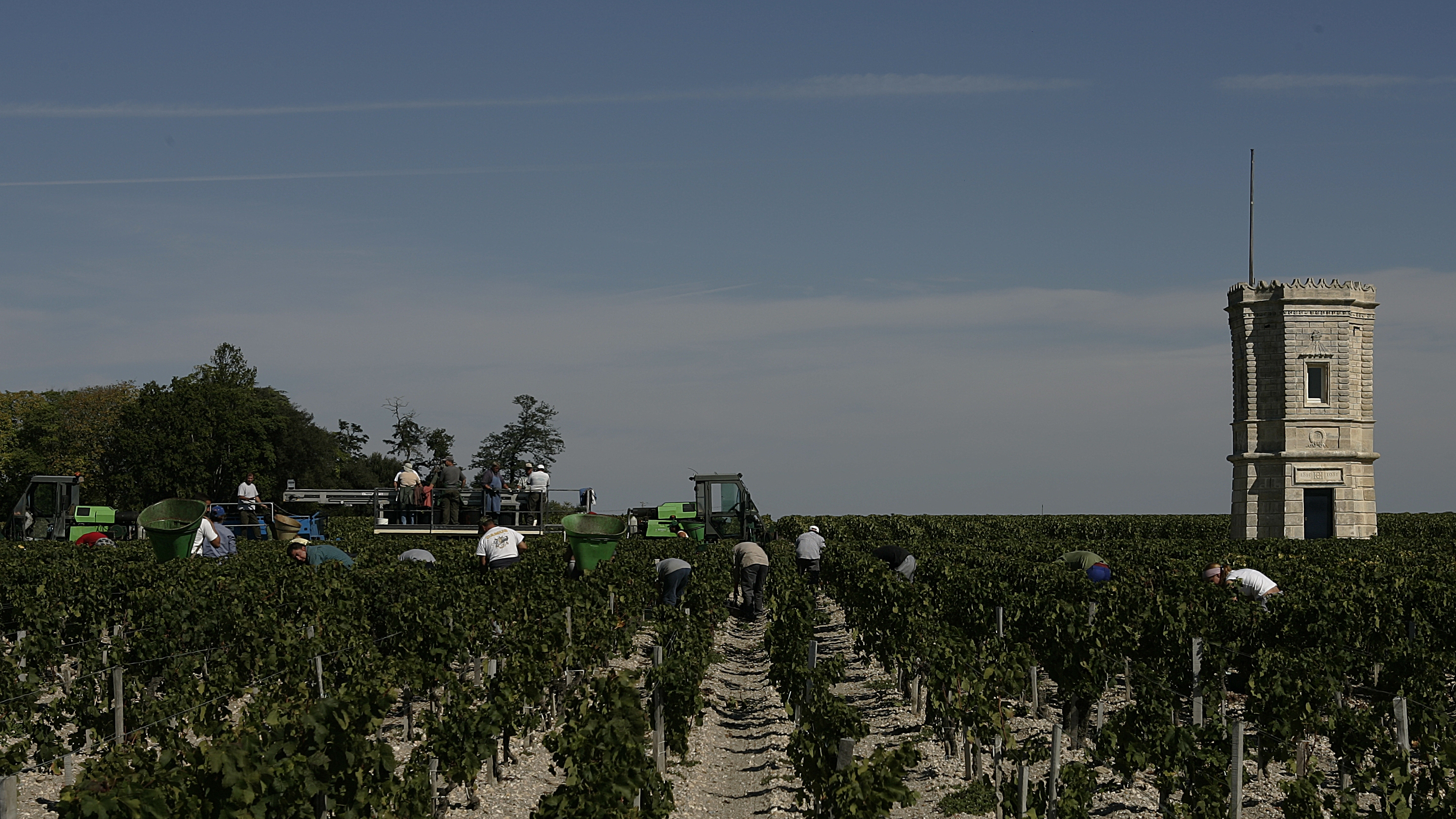 Harvesters working on the vineyards of Tour de Marbuzet